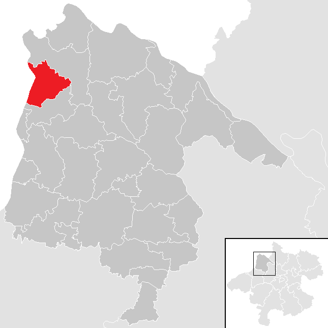 district Schärding